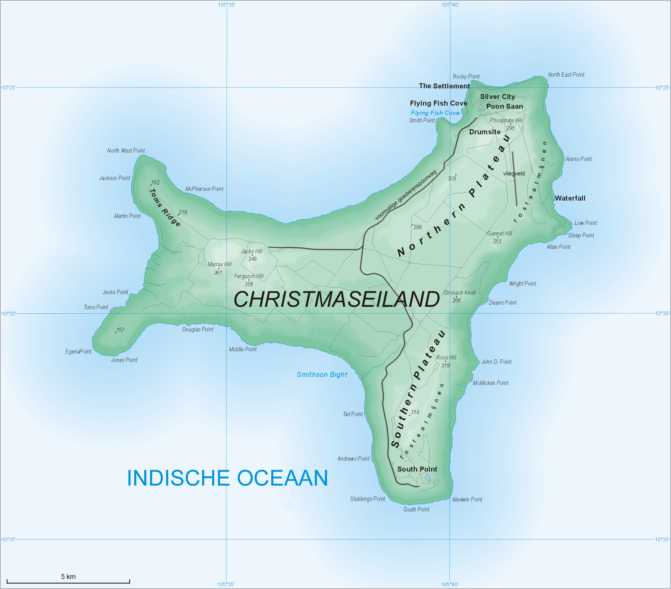 Christmas Island map in Dutch